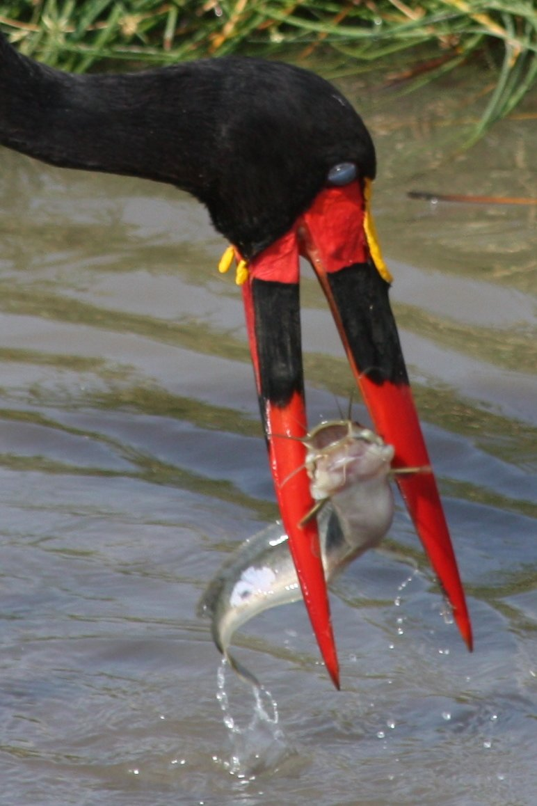 Close-up of catfish caught in the beak of a saddle-billed stork (Ephippiorhynchus senegalensis) in Tanzania.